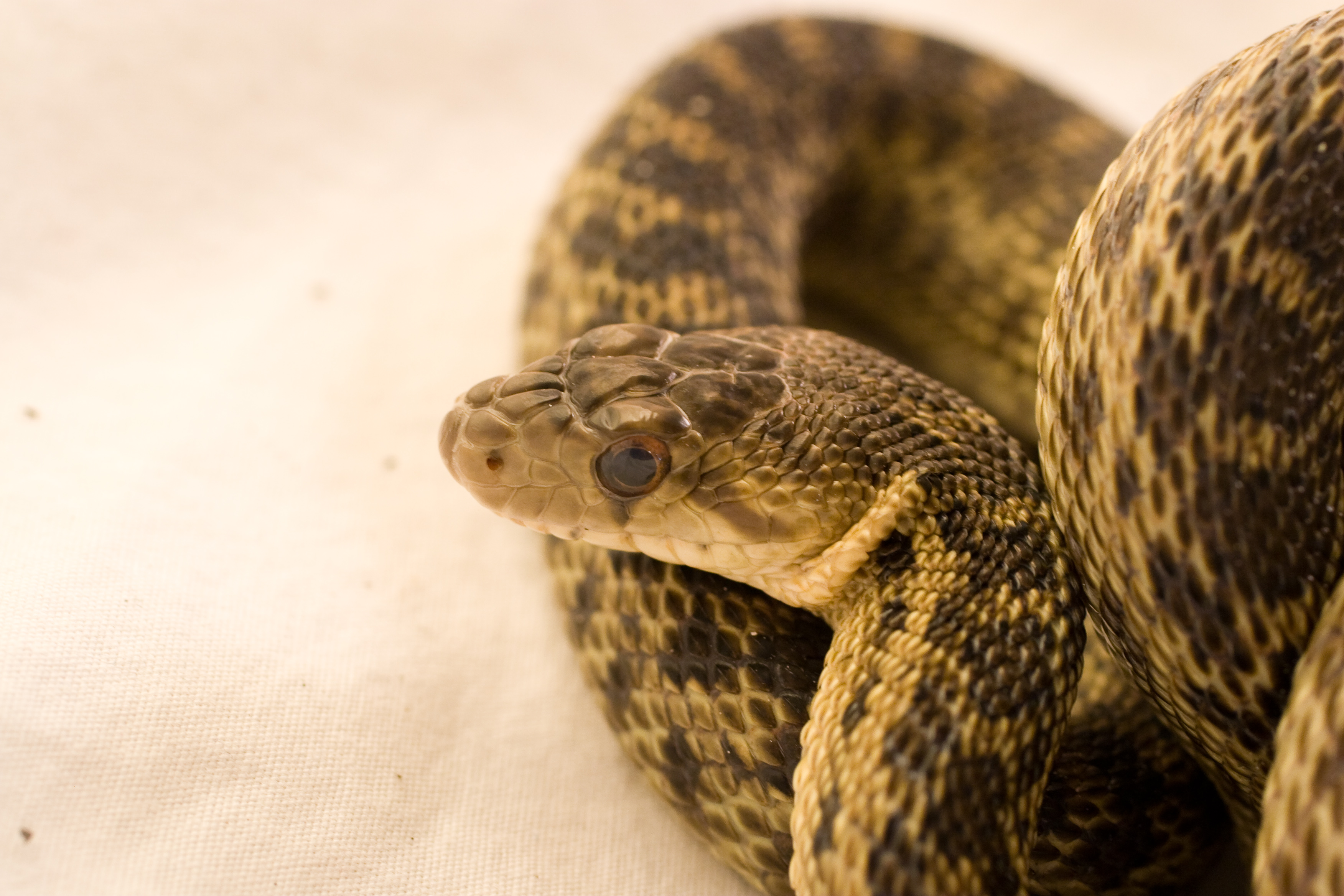 Taken in Santa Cruz California, by Julia Larson